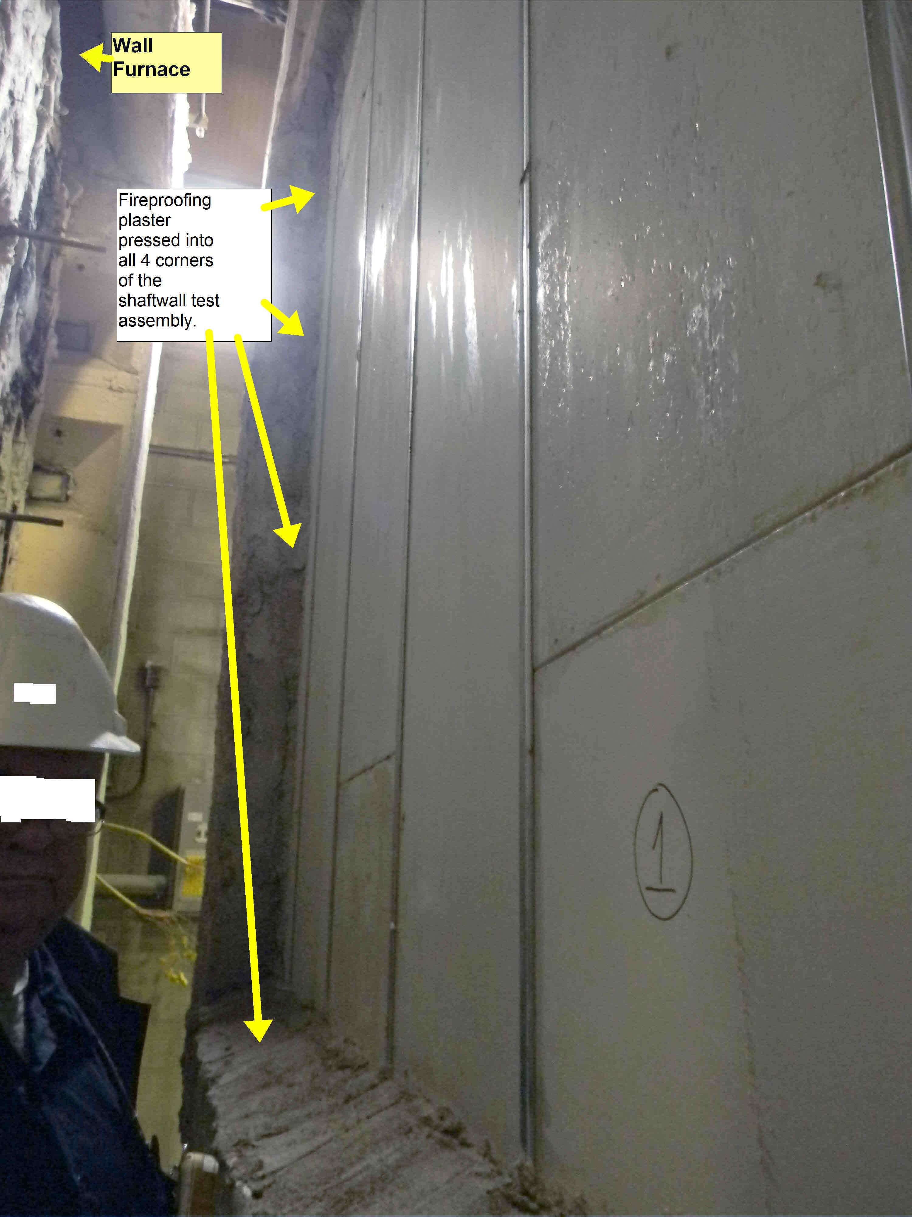 This picture shows a shaftwall assembly immediately before a successful 3 hour fire test conforming to ASTM E119, ULC-S101 and NFPA 251. Factory-made boards are straight. Test frames are not always straight due to repeated and extreme temperature fluctuations. It is common practice in North America to fireproof the edges of all such assemblies. The labs call this "monokoting" after a popular commercially available brand of fireproofing plaster. This common corner fireproofing is a prudent item to consider in grandfathering drywall shaftwall systems for fireproofing ductwork or electrical services because not even the straight wall corners, all four of them in a test, are actually tested because they are protected by fireproofing plaster. A pressurisation or grease or smoke exhaust duct or cable tray, conduit or wiring that needs to be fire-resistance rated necessarily requires corners. Joints are the weakest link in fire-resistance testing of wall and floor assemblies. The corners are also never equipped with thermocouples (which determine pass-fail criteria for the test). Even though the corners are protected with fireproofing plaster that is not mentioned in any certification listings in North America, not a single thermocouple has to go there. If there were a joint in a grandfathered 3-dimensional drywall shaftwall system around any ductwork, mechanical or electrical services, there is zero evidence of the temperature going through that system at this location.